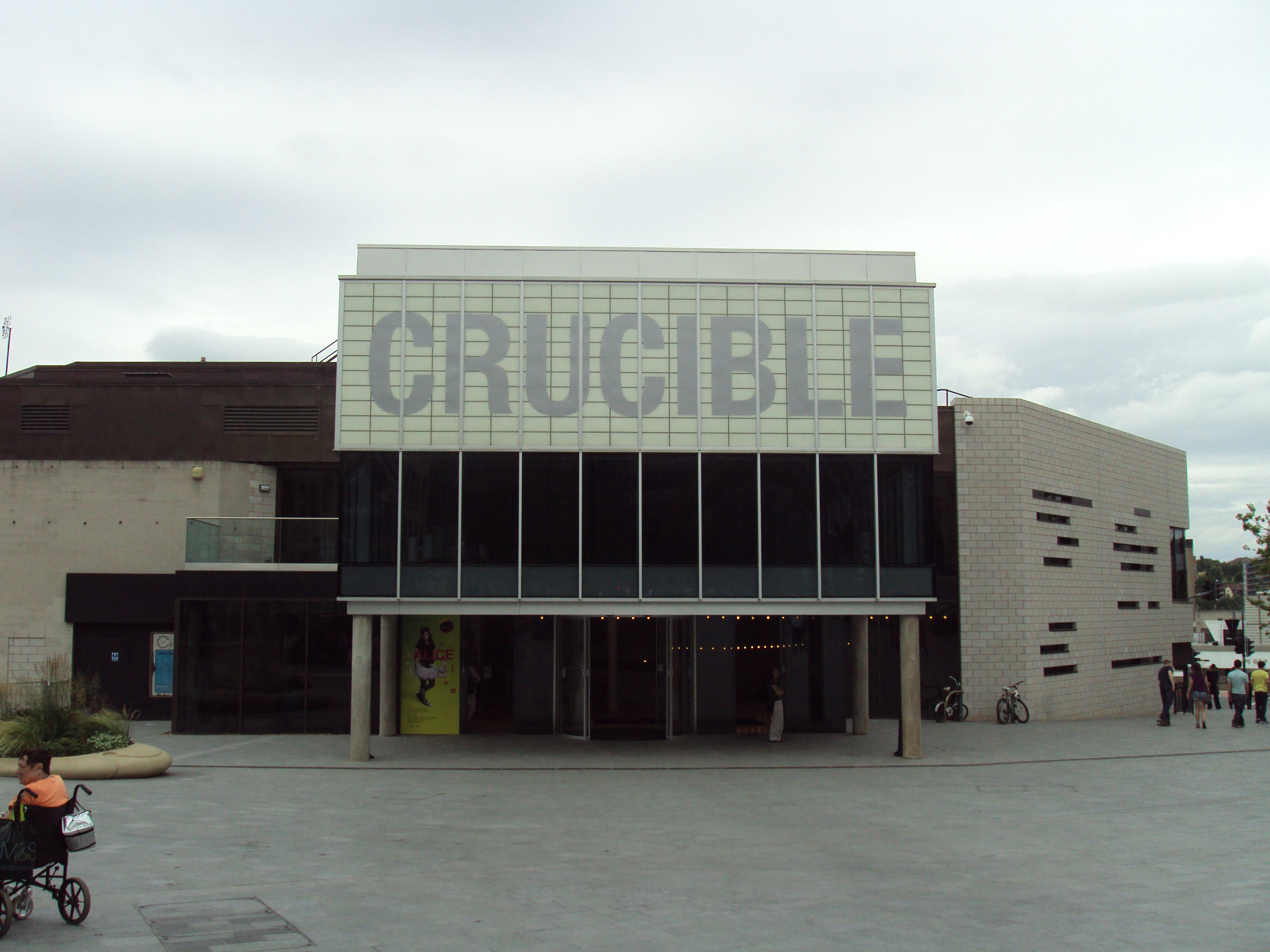 The Crucible theatre, Sheffield, England.